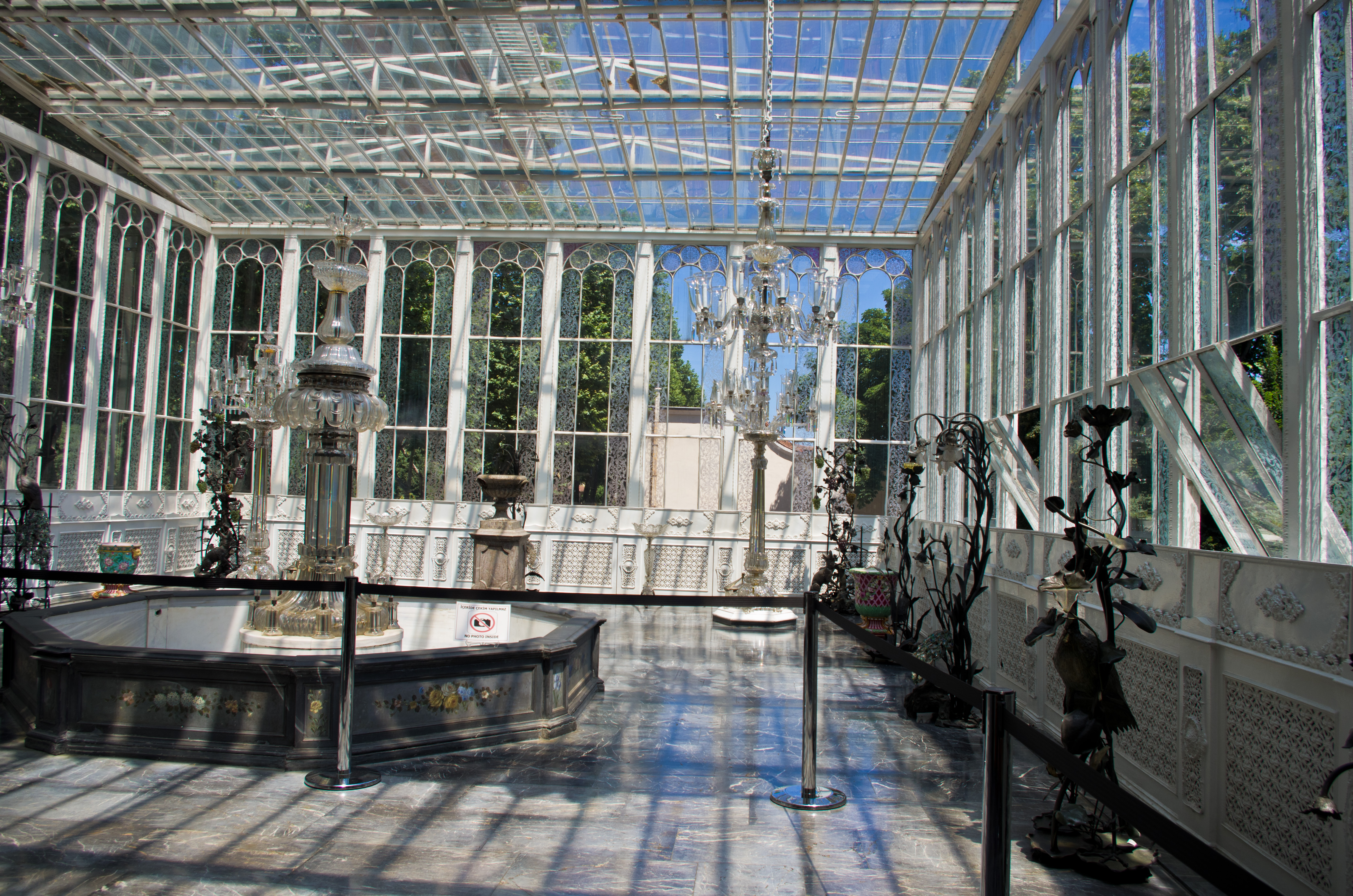 Crystal room in Dolmabahçe Palace